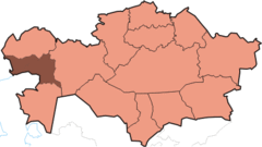 Map of Atyrau Province